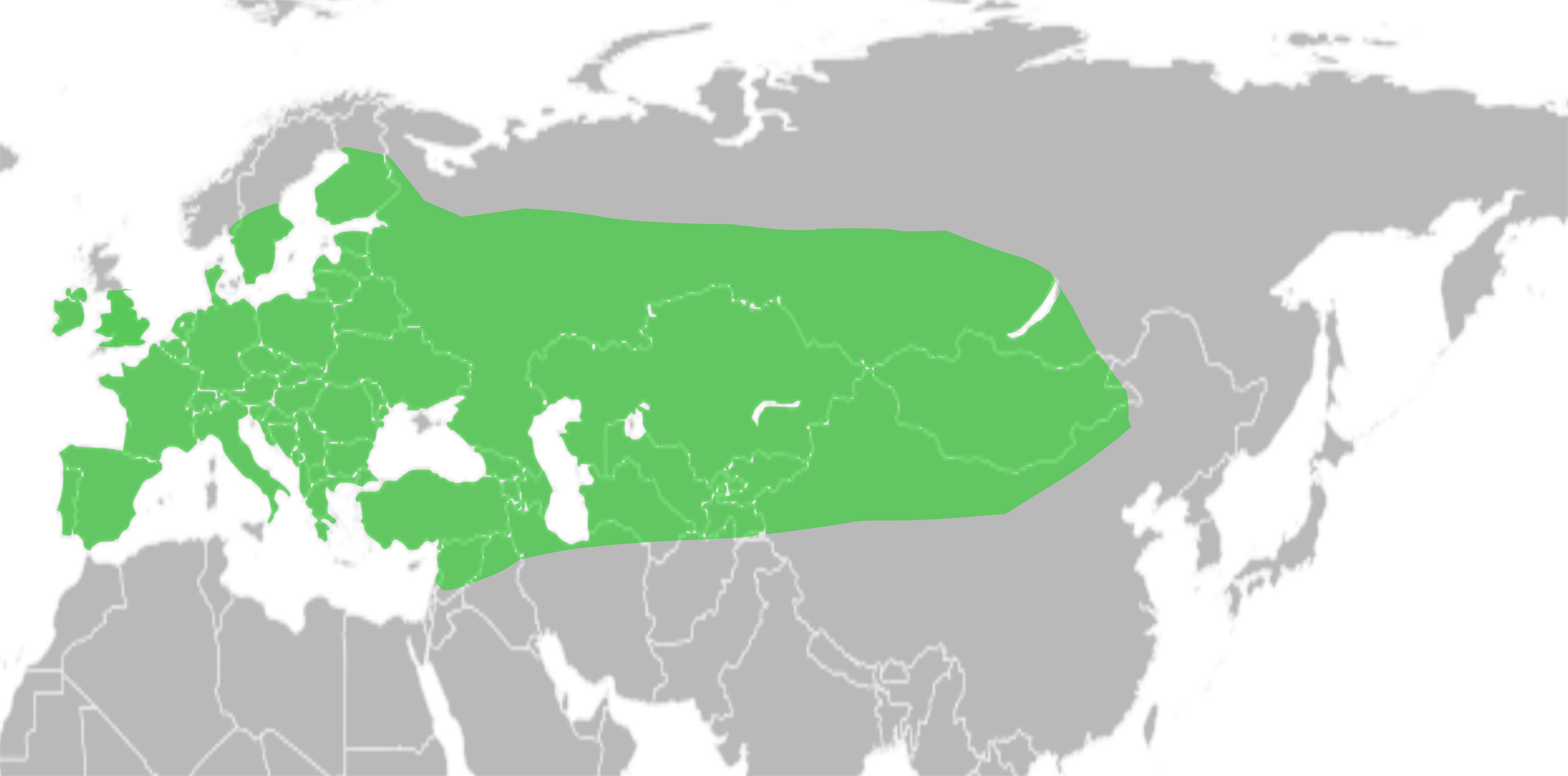 Distribution map for the beetle species Cetonia aurata (rose chafer). Original blank SVG map by author Frank Bennett Made with Inkscape